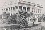 Earlsbrae Hall, Australia photographed in 1899. Photograph in public domain by virtue of age (